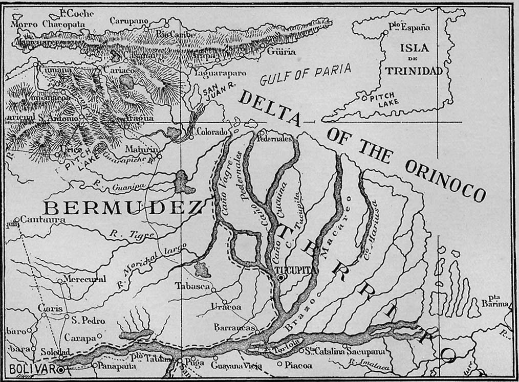 Map of Lower Orinoco Published in 1897 - no copyright.